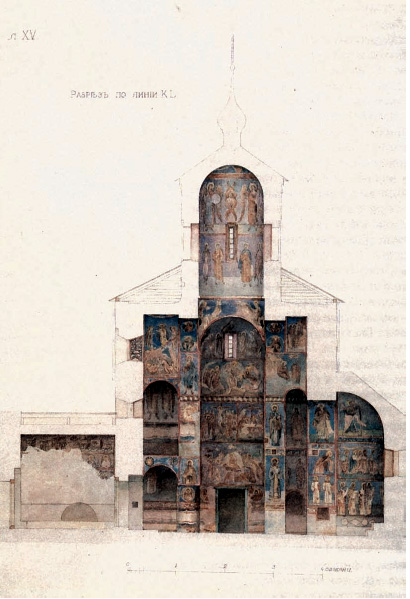 The plan of medieval frescoes of the Volotovo Church near Novgorod